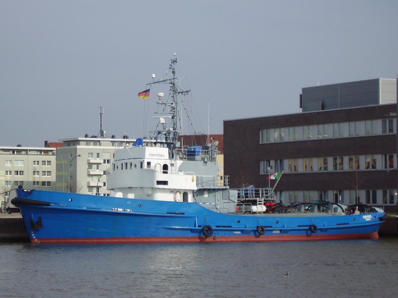 The tugboat "Eisvogel" resting in Bremerhaven, Germany. The ship was a tugboat of the German Navy formerly. IMO number: 8736198.